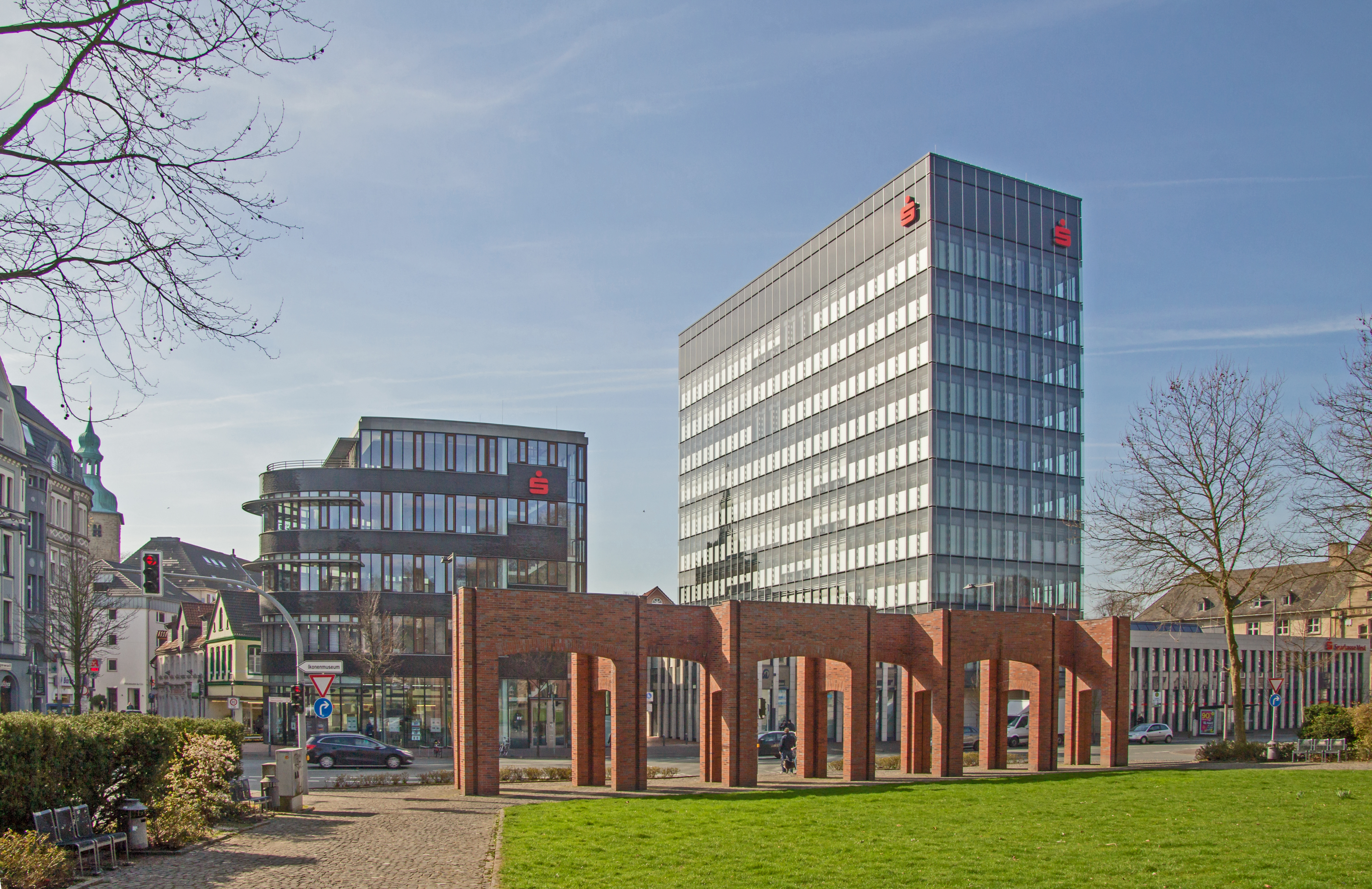 Lohtorsquare with St. Peter, headquarter of Sparkasse Vest and sculpture (Per Kirkeby) - Recklinghausen, North Rhine-Westphalia, Germany